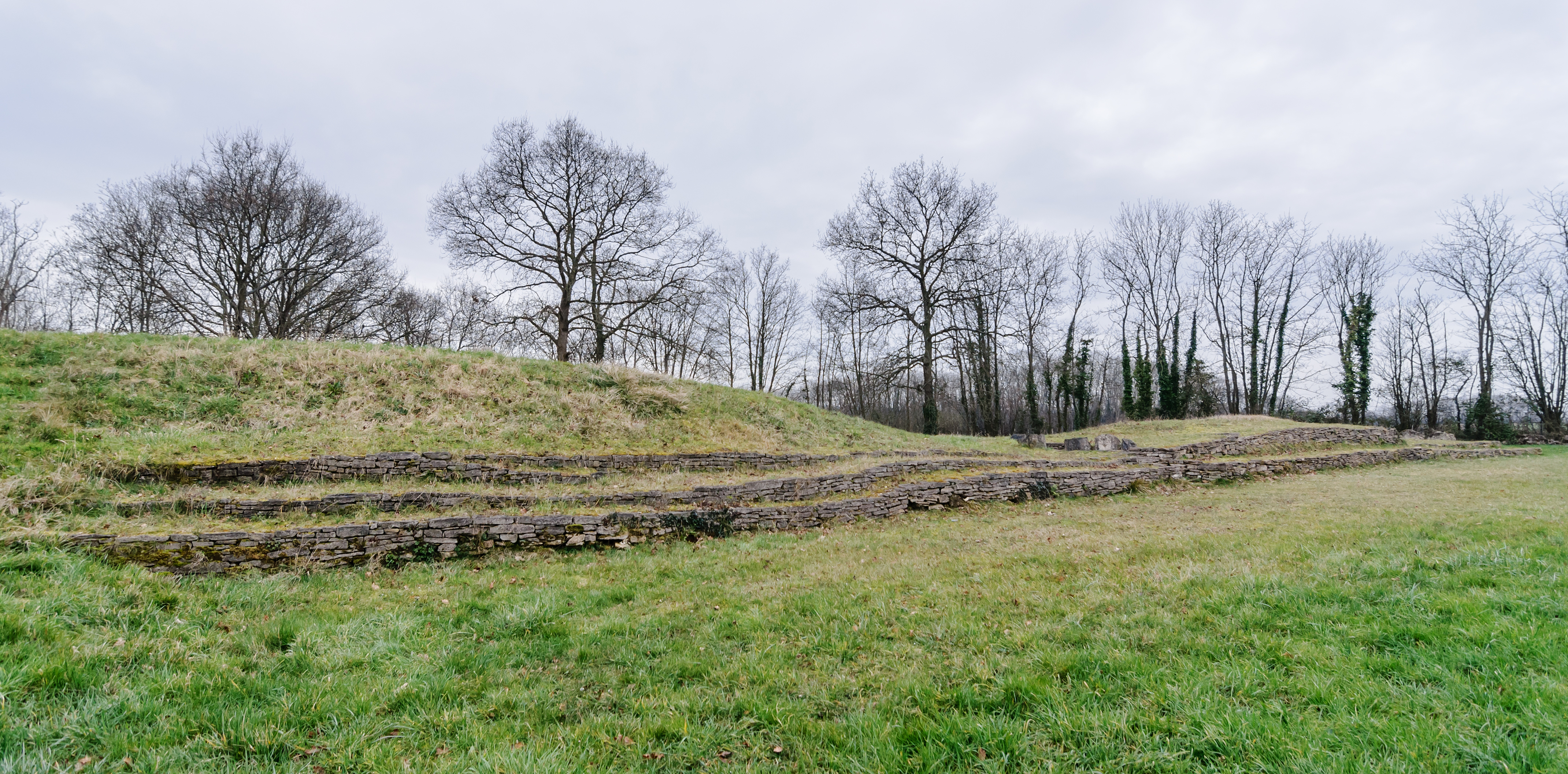 Long barrow in Colombiers-sur-Seulles, Calvados, Basse-Normandie, France